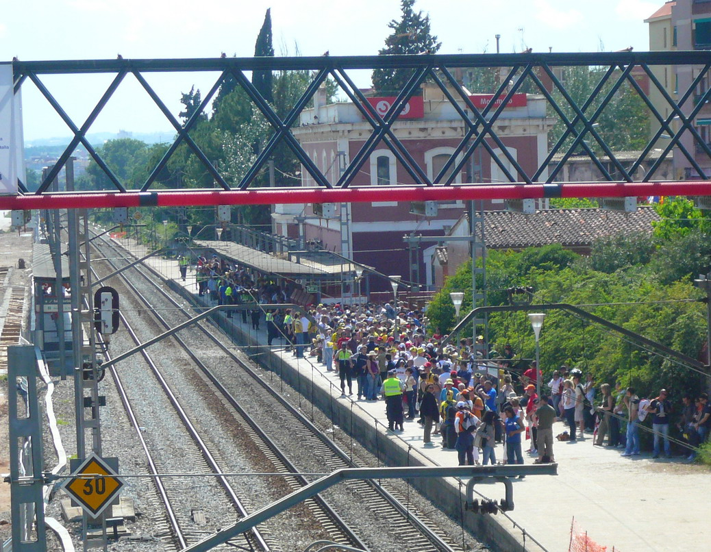 Montmeló station after Gran Premi de Catalunya 2008 (2008 Catalan motorcycle Grand Prix).